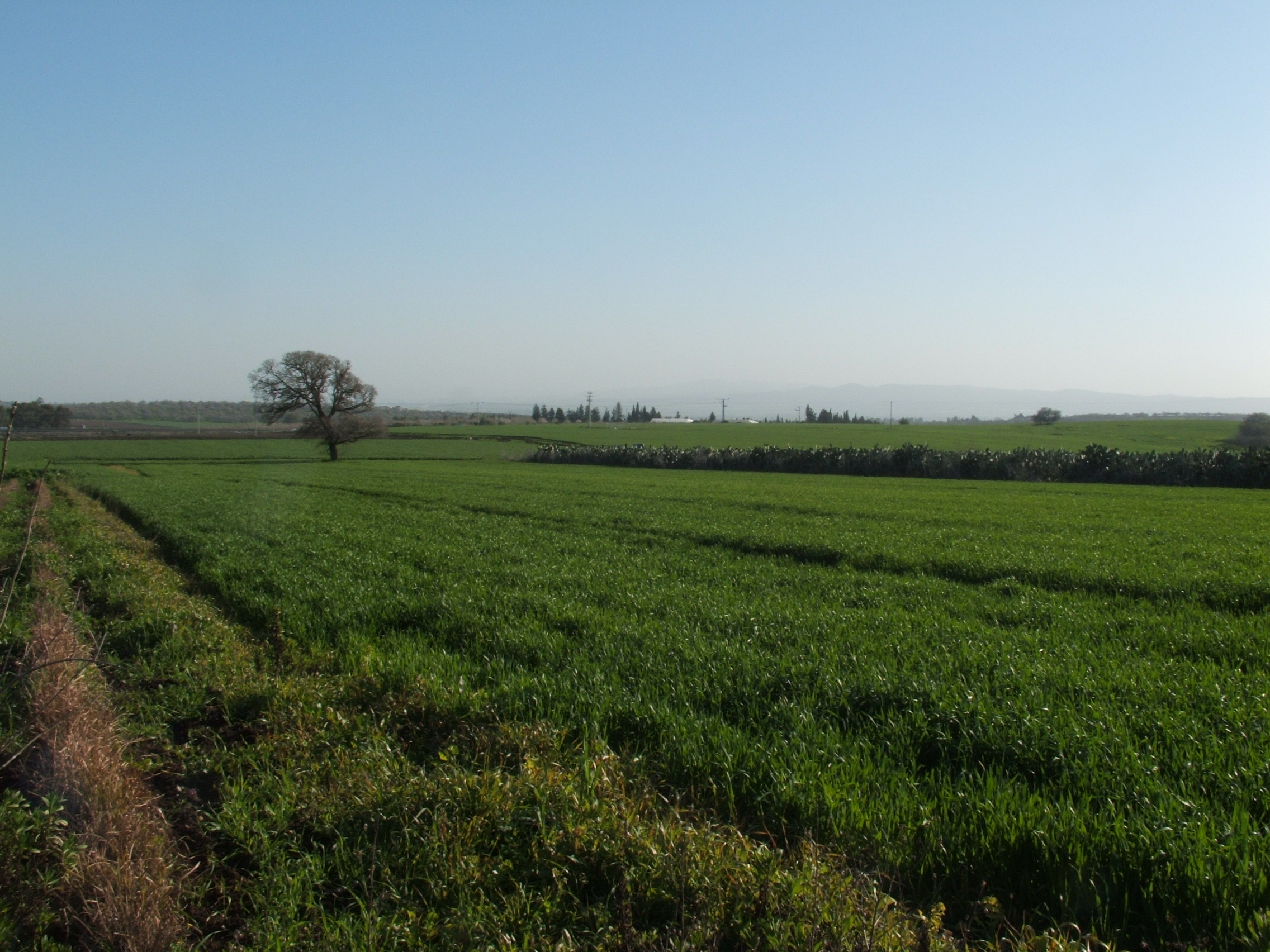 Tree green field with blue sky